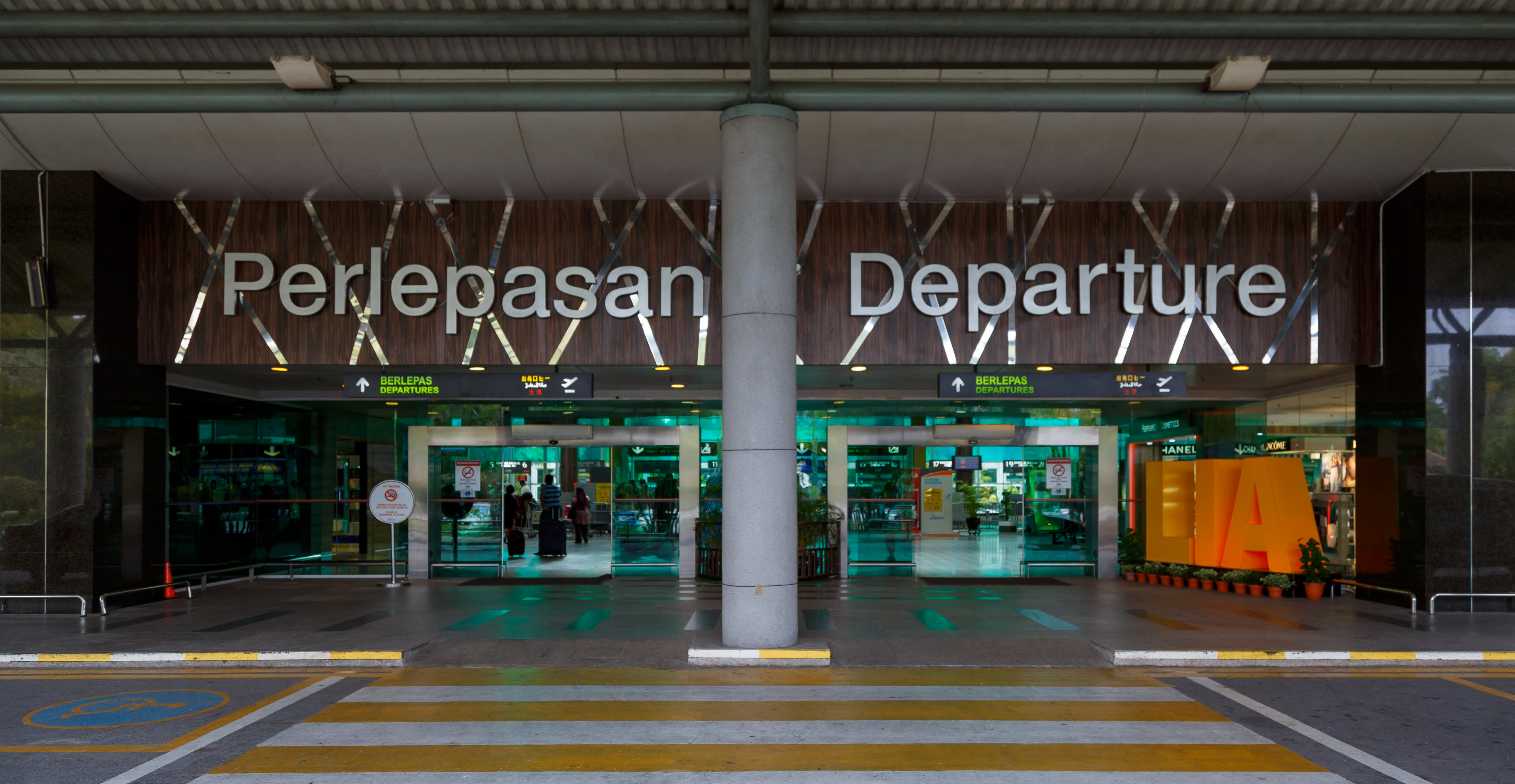 Langkawi, Malaysia: Entrance to Langkawi International Airport